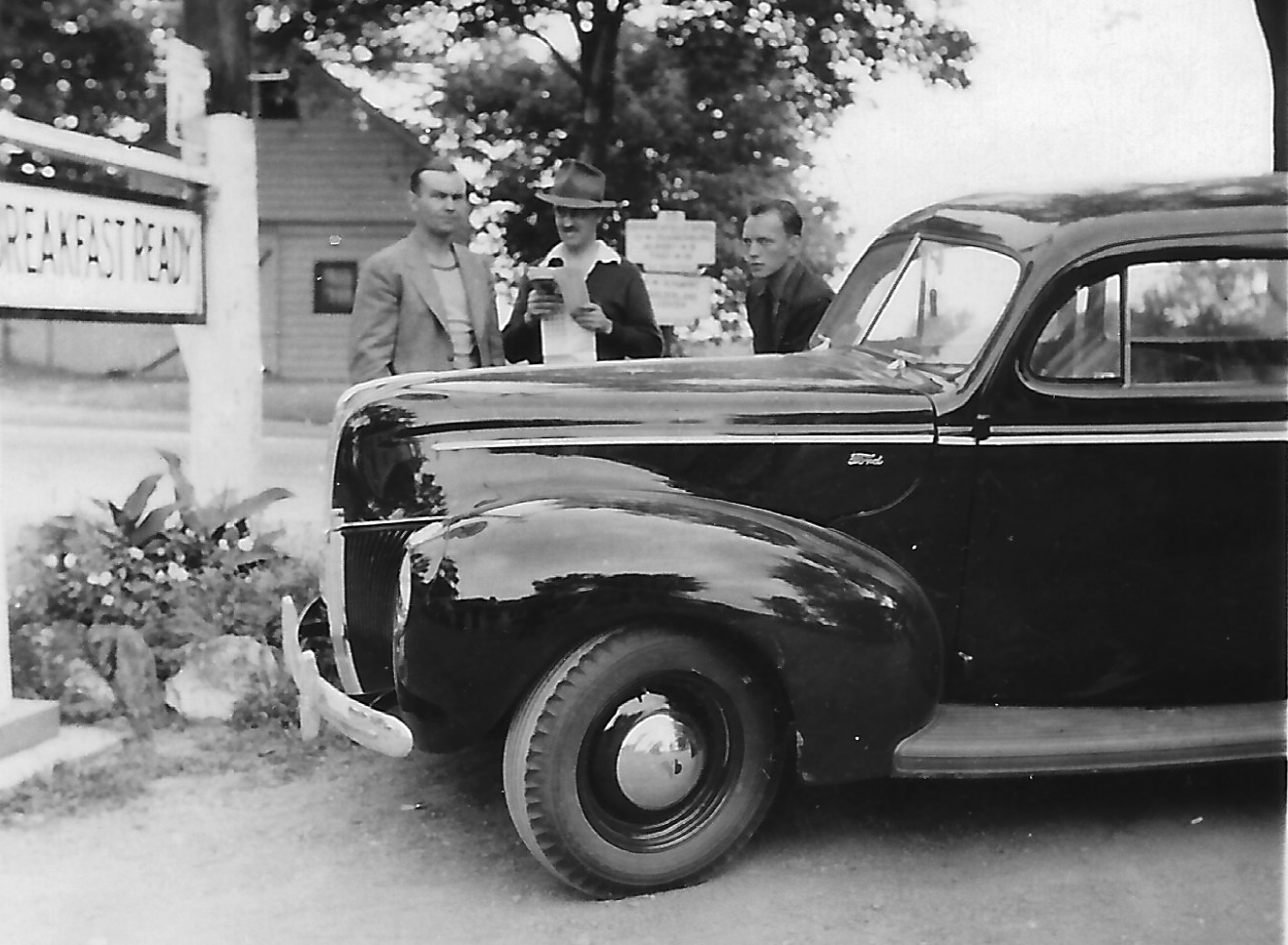 As the United States Border Patrol expanded in response to the second world war, four newly hired border patrolmen from the northeastern United States stopped for breakfast while driving this new pursuit vehicle from the Detroit, Michigan, Ford factory to the Border Patrol training facility in El Paso, Texas.